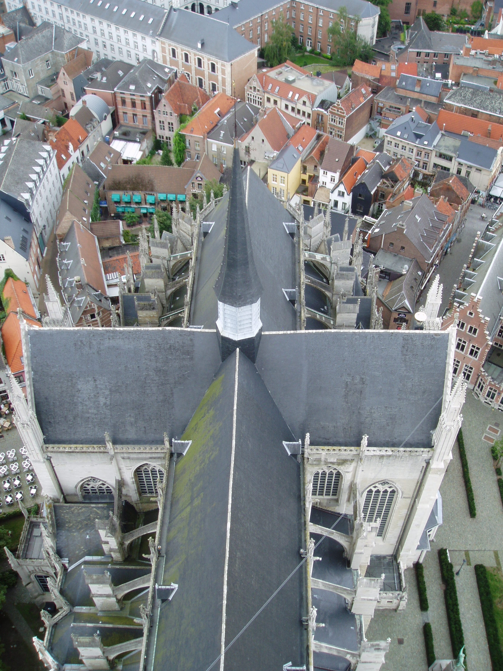 View on lower roof of cathedral Sint-Rombouts, Mechelen, Belgium.